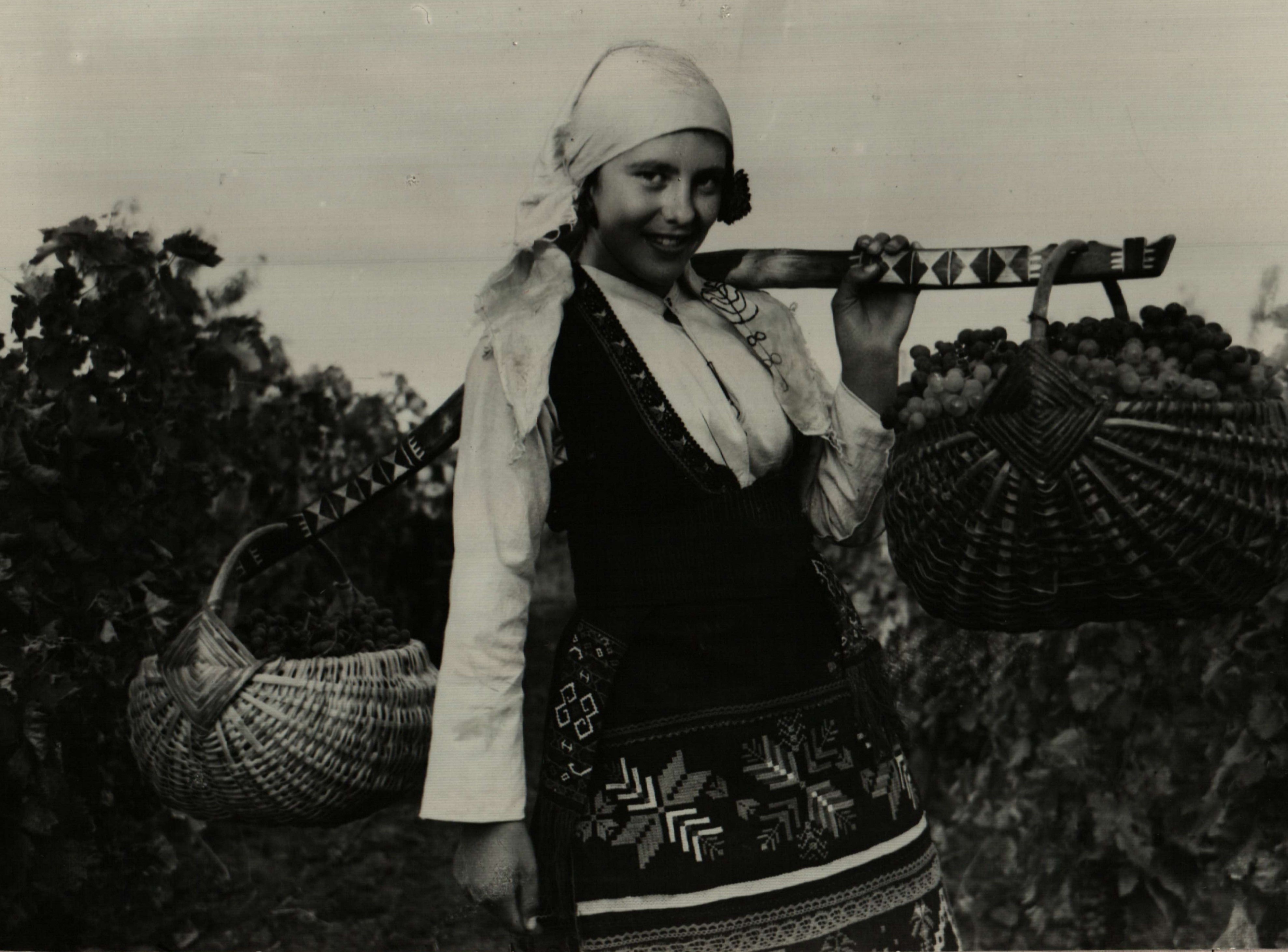 Viticulture in Bulgaria